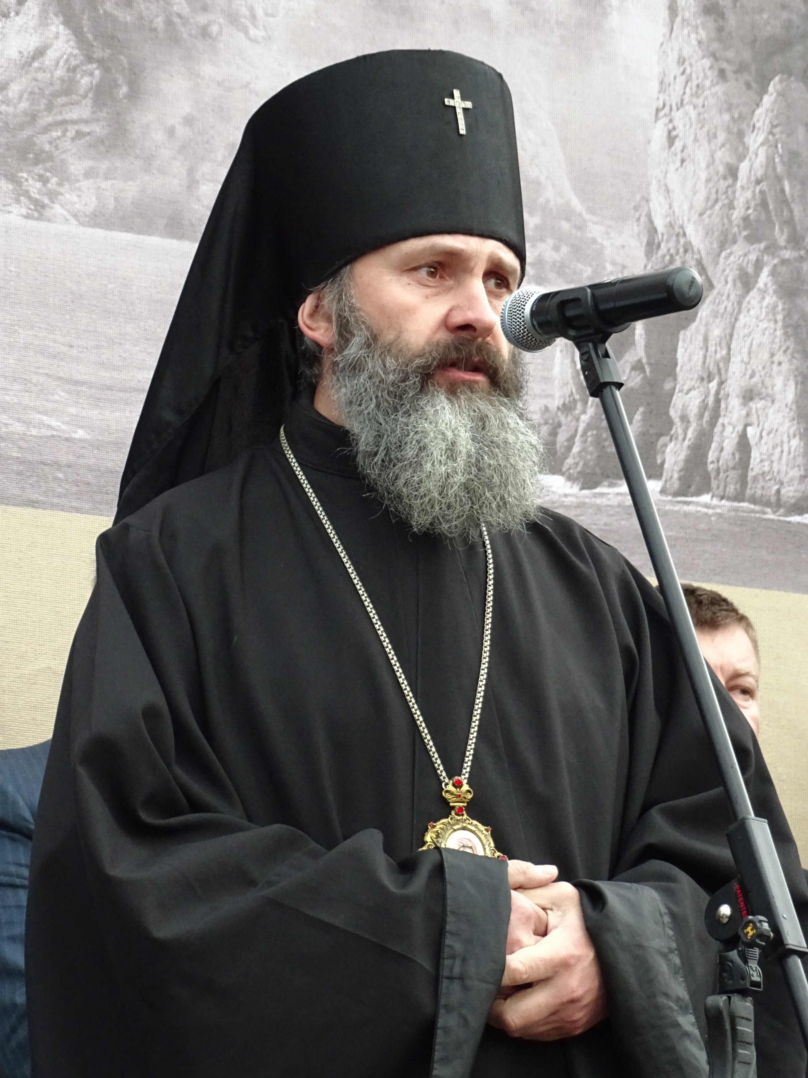 Orthodox Archbishop Speaks at May 18 Commemoration of Crimean Tatar Deportations-Genocide - Maidan Square - Kiev - Ukraine